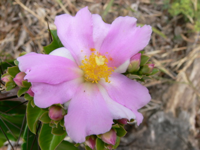 Detail of the flower of a Pereskia grandiflora.